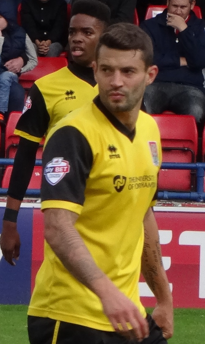 Marc Richards playing for Northampton Town against York City at Bootham Crescent, York on 16 August 2014.